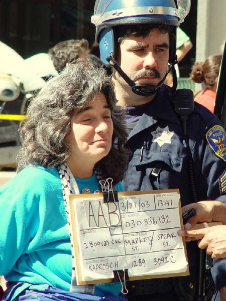 Description Anti-war activist arrested in San Francisco during the March 2003 protests against the war in Iraq. Date March 21, 2003 Location San Francisco California Photographer Franco Folini